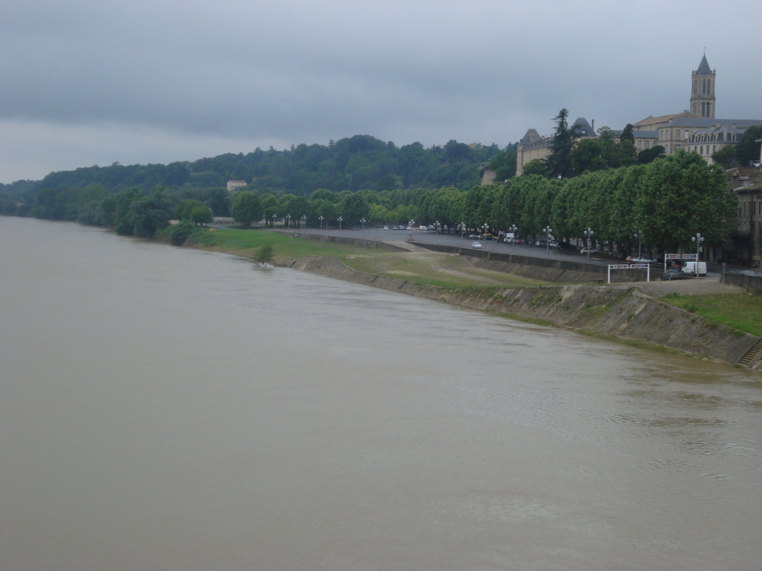 La Réole and Garonne river, general view